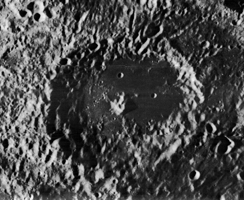 Slightly oblique view of Leeuwenhoek, on the far side of the moon.